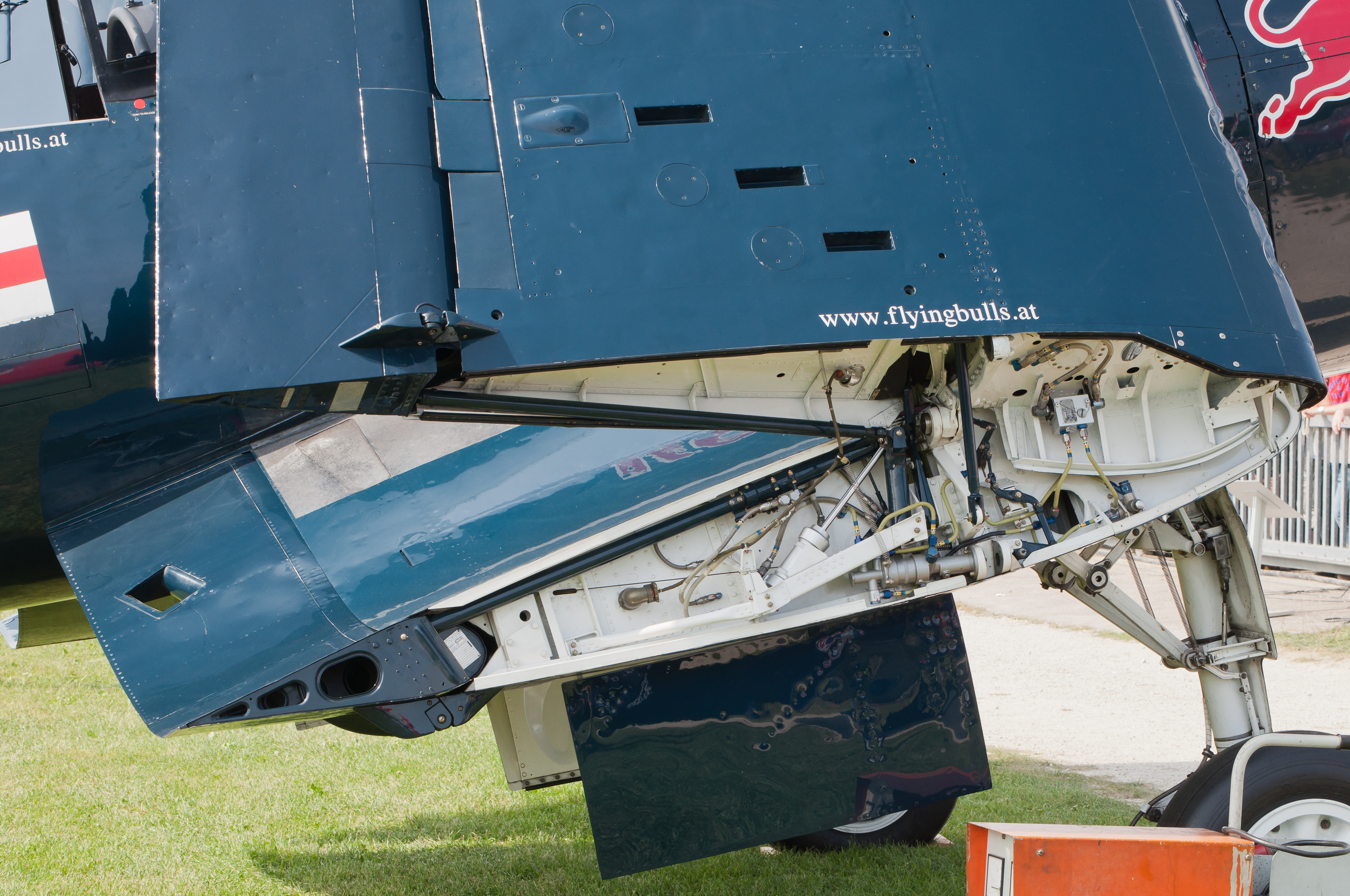 Wing folding mechanism. Aircraft: Eric Goujon/Red Bull Vought F4U-4 Corsair (reg. OE-EAS, cn 9149, built in 1945). Engine: Pratt & Whitney R2800 CB-3 (2100 hp).